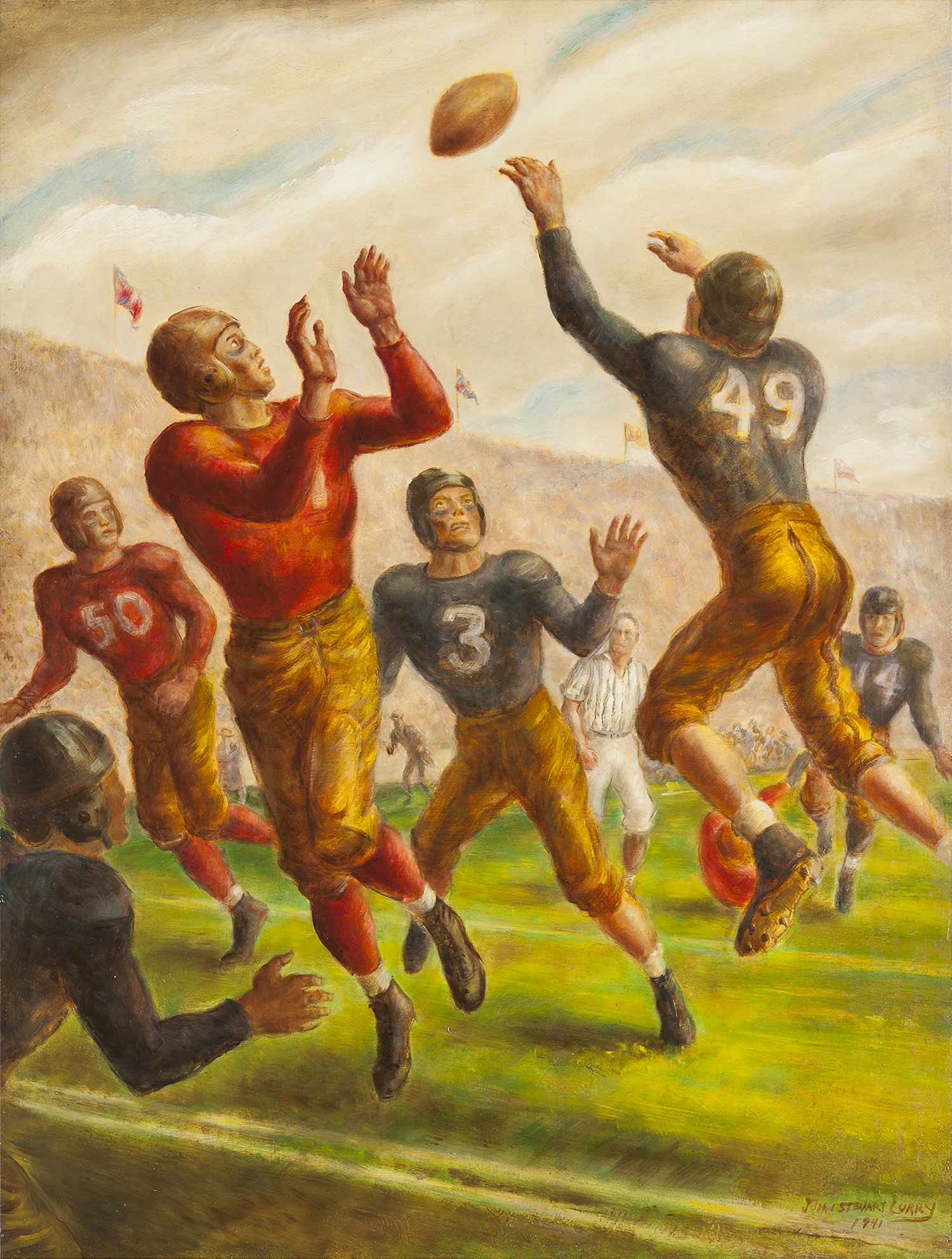 "An All-American, painting by John Steuart Curry of David N. Schreiner, an All-American end in 1942, who was killed in action on Okinawa in 1945 while serving as a lieutenant with the 6th Marines. He is shown catching a forward pass near the goal line during a football game at Camp Randall. It was originally painted for Abbott Laboratories for use in a magazine they published. Mr. Curry suggested that they present the painting to the University of Wisconsin-Madison athletic department. Schreiner's No. 80 was retired in 1945 and again in 2006 where it adorns the Camp Randall facade with 5 other football heroes." (--Wisconsin Historical Society website)